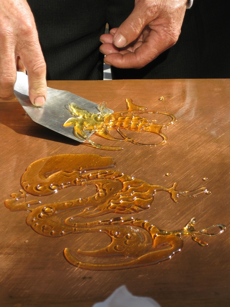 A Chinese sugar painting of a dragon being scraped from a copper sheet after being allowed to cool. Bân-lâm-gú: 用糖膏畫一隻龍，等冷矣了後，用黜仔共黜起來。